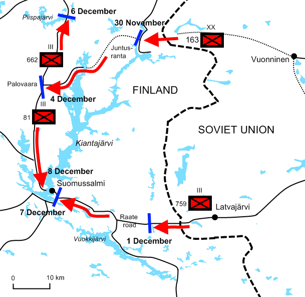 Diagram of the Battle of Suomussalmi from 30 November to 8 December 1939. The Soviet 163rd Division advanced to the town of Suomussalmi.